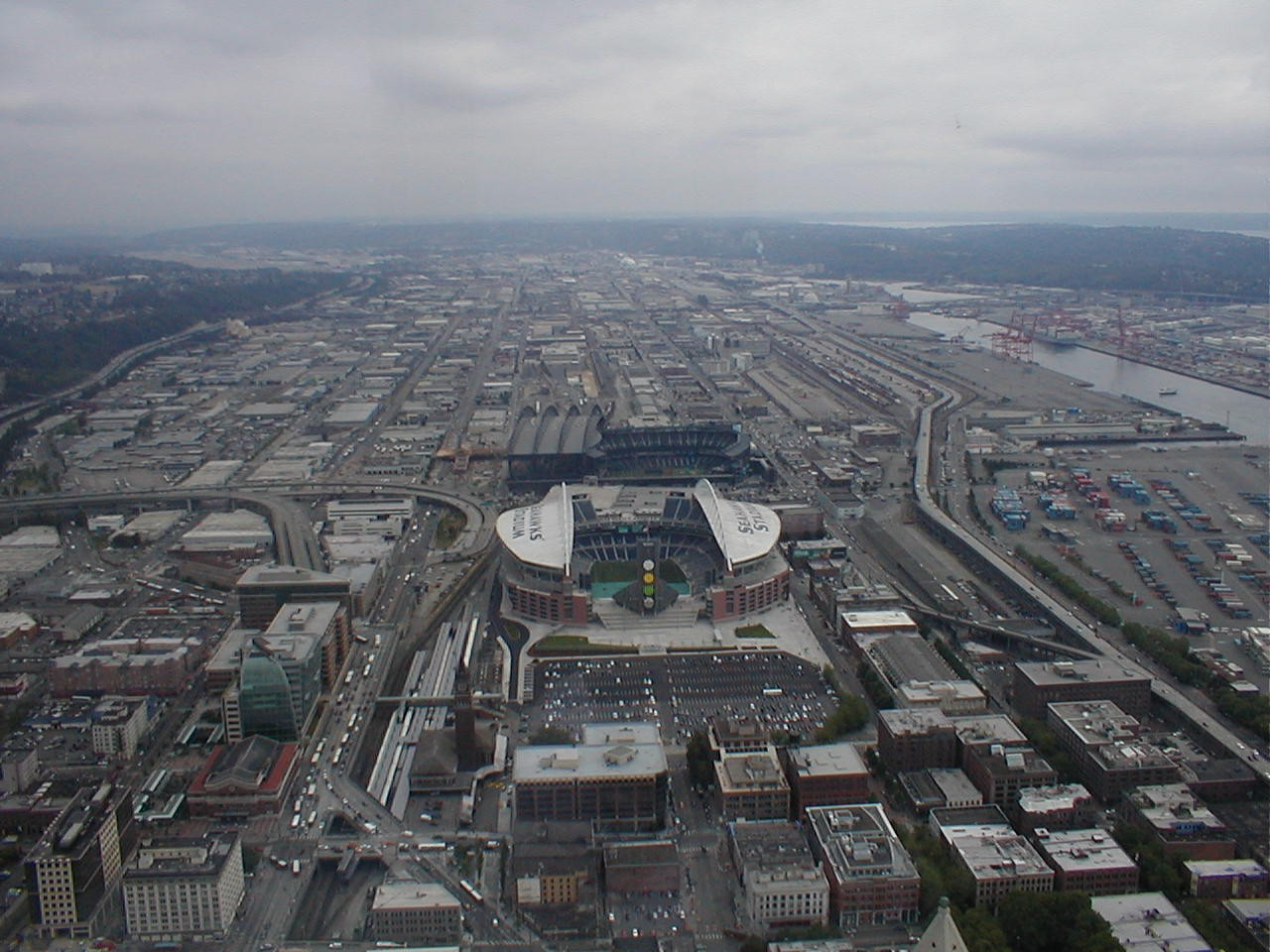 This is a picture of Seahawks Stadium now Qwest Field taken on July 18, 2002 The photo was taken on the 75th Floor of the Bank of America tower in the Executive Club. I photographed this myself --Cloveious 04:52, 4 September 2005 (UTC)